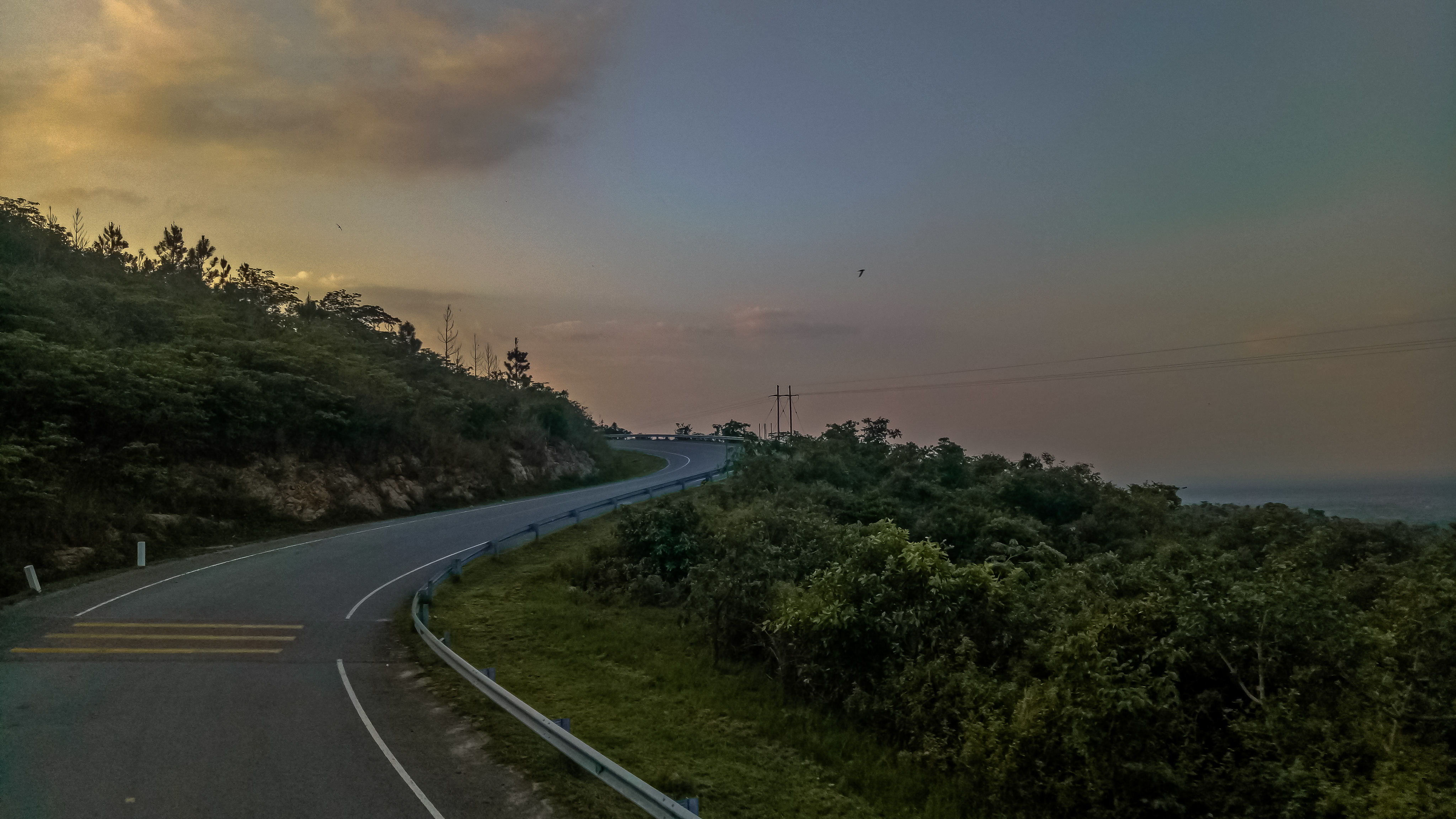 This is an image with the theme "Africa on the Move or Transport" from: Uganda